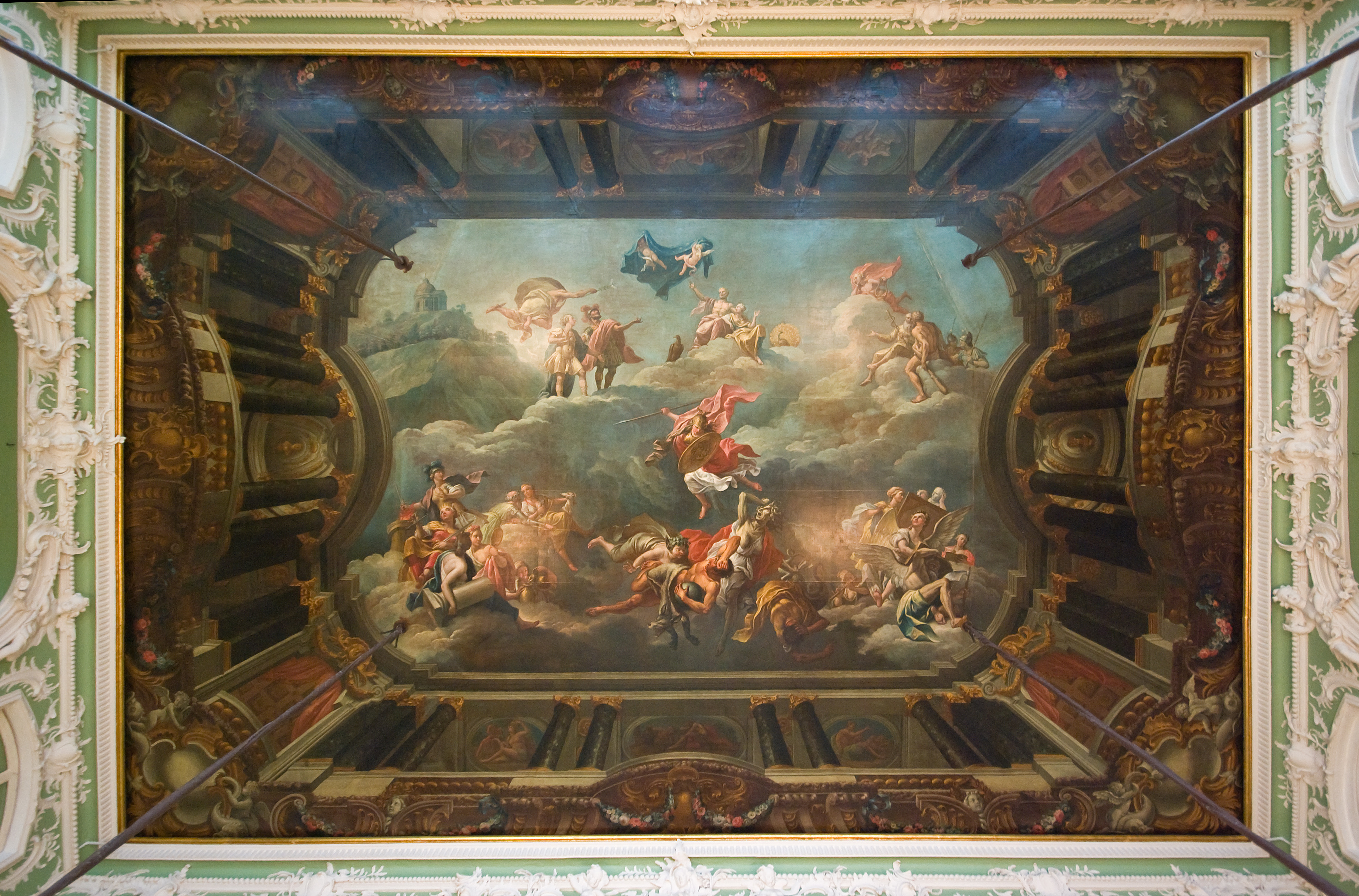 cell; GRAND HALL, Stroganov Palace The interior was designed after the architect Francesco Rastreili's project in the 1750s who had not Finished his work. The plafond represents a painterly composition painted by Italian master Valeriani (central part) and Antonio Pcresitotti. Dessus des portes (paintings above the doors) were painted by unknown master and show Aeneas' story. The restoration was carriied oui with intervals in 1993-2003.